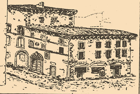 Illustration from Brockhaus and Efron Jewish Encyclopedia (1906—1913), Old Synagogue in Pesaro